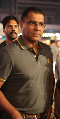 Pakistan Super League #PSLt20 Cricket #AbkhelKDikha Waqar Yonus & Umer Toor